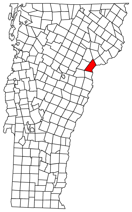 Map of Vermont towns with Barnett highlighted